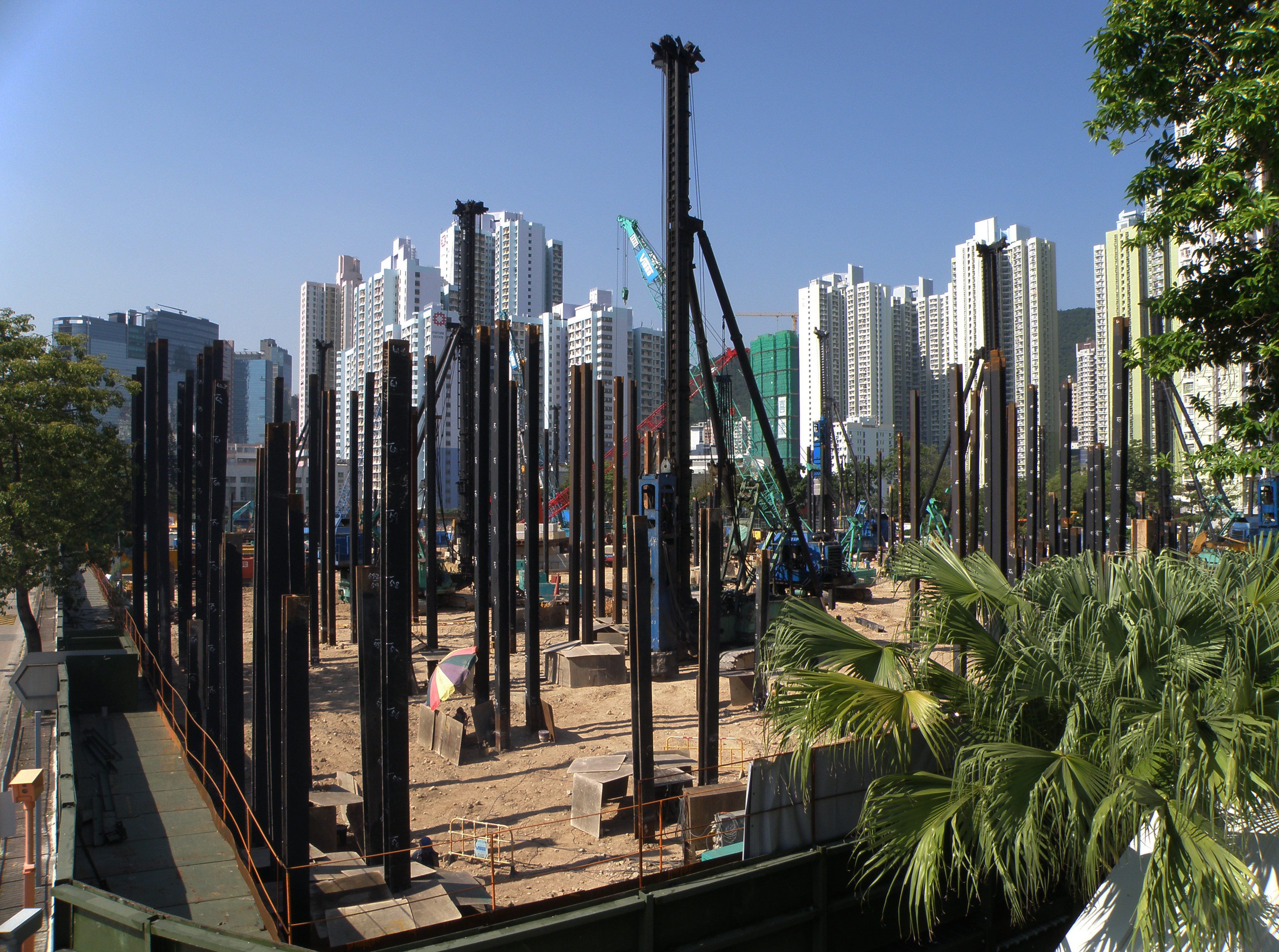 Lai Tsui Court in Cheung Sha Wan, Hong Kong.